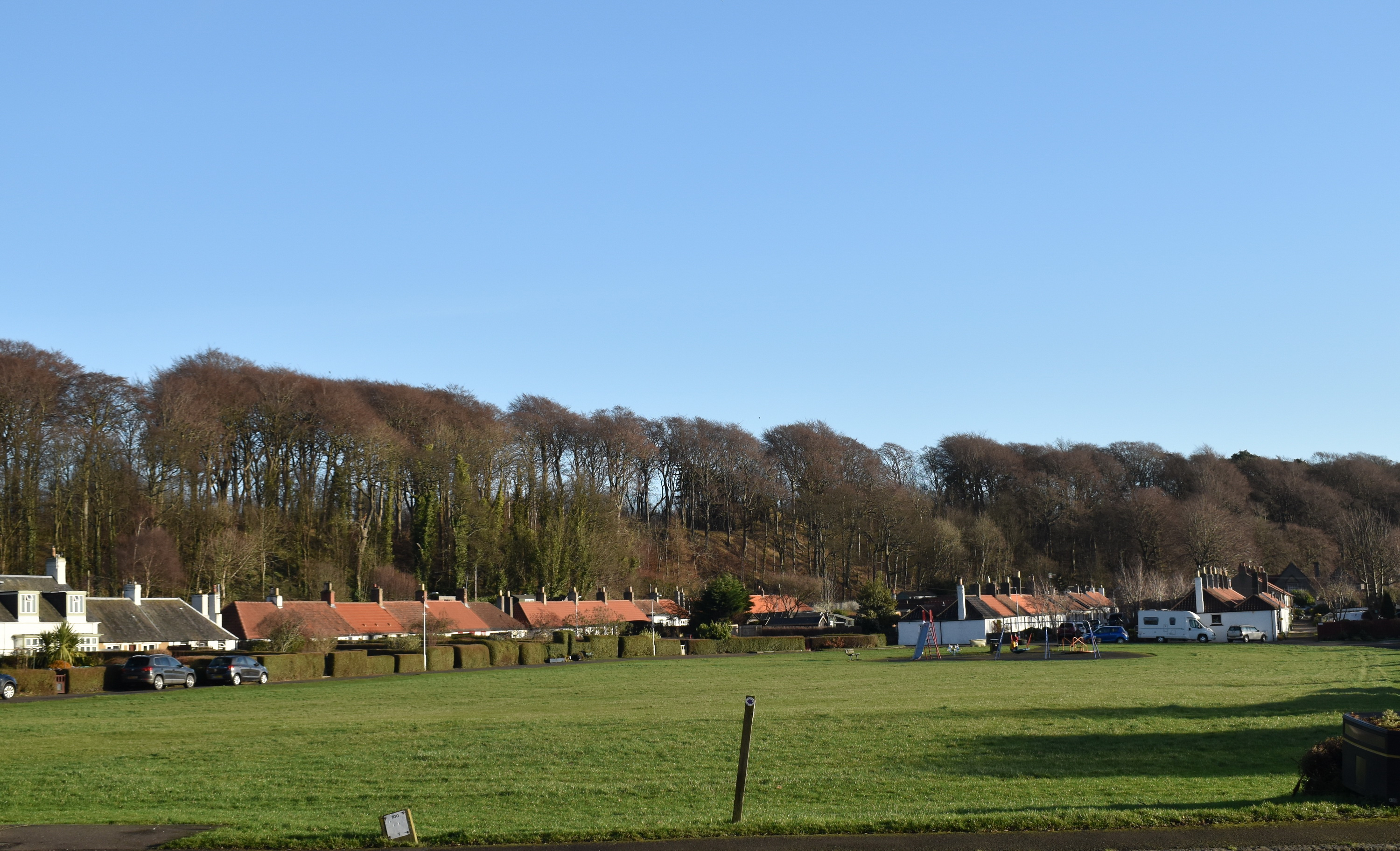 A view of the Planned Village across the Green, looking east, the North Row on the left, Middle Row to the right